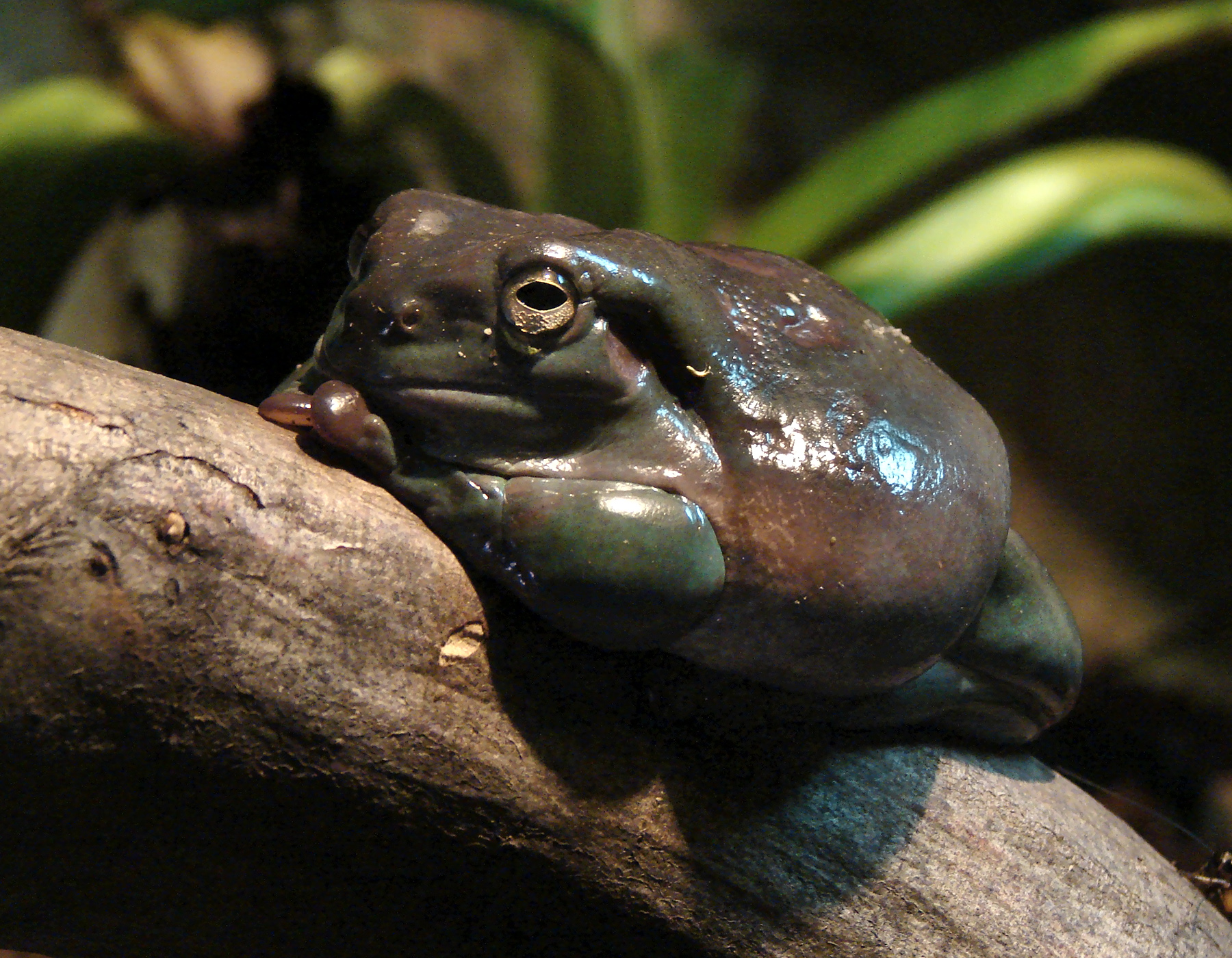 White's Tree Frog